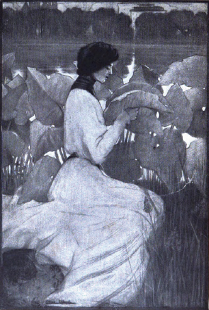 The frontispiece of Alice Woods Ullman's 1904 novel, A Gingham Rose, created by the author